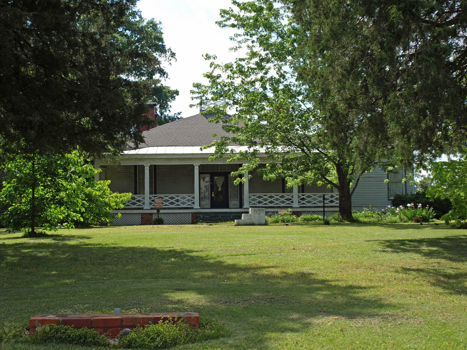 The James H. Bibb House in Madison, Alabama, listed on the Naitonal Register of Historic Places.